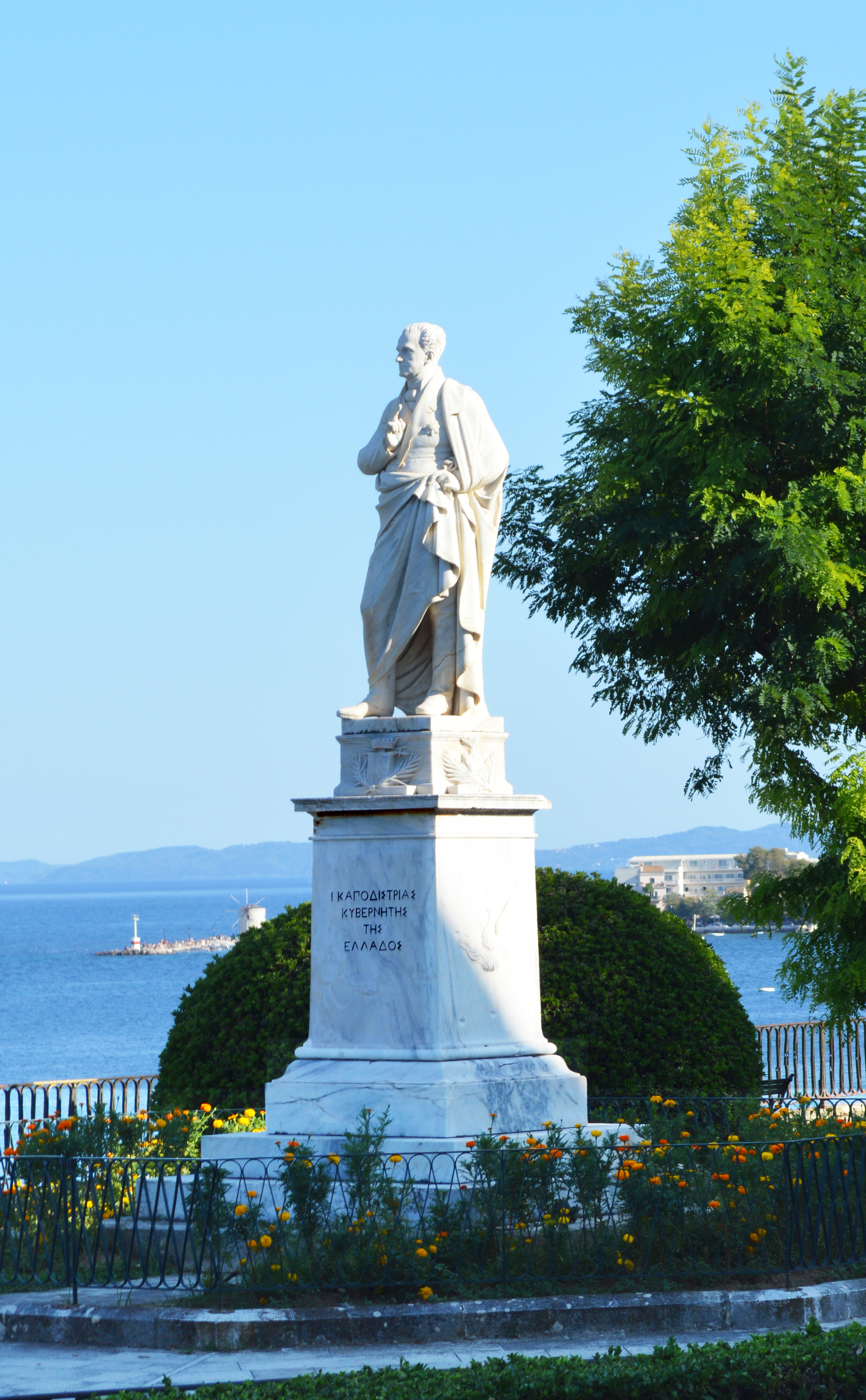 Corfu. Statue of Count John Kapodistrias the first governor of Greece on Prospect of Democracy in front of the Ionian Academy